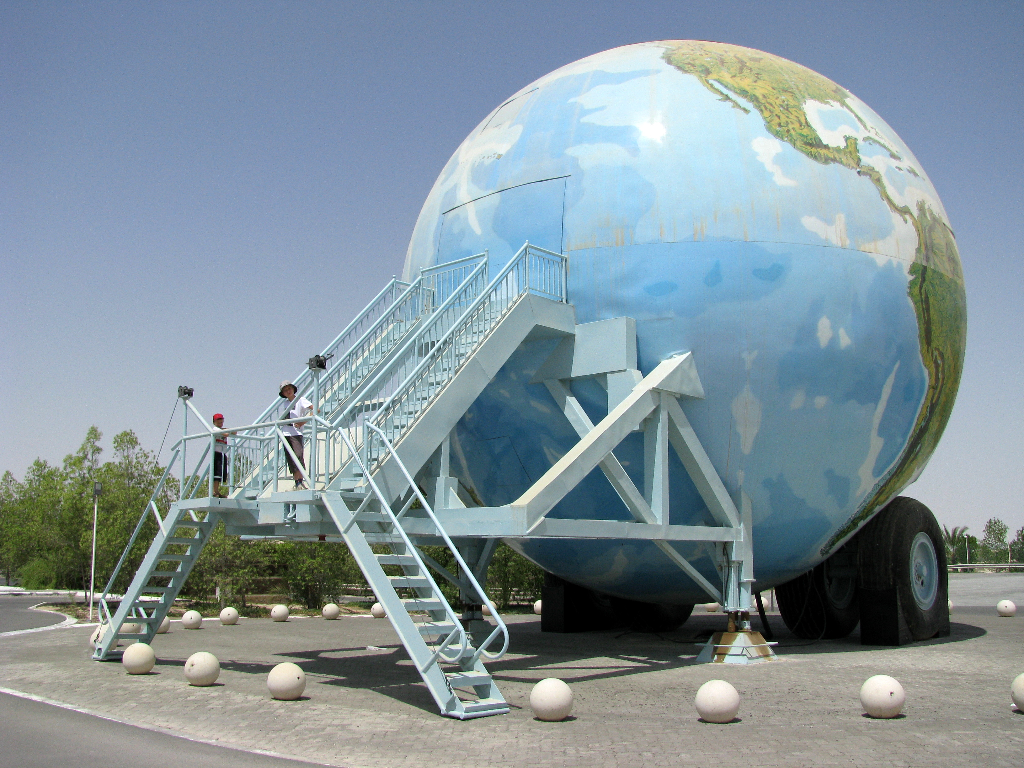 A remarkable caravan trailer, which is part of the private collection of Shaikh Hamad Bin Hamdan Al Nahyan (